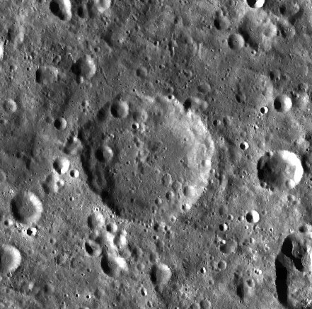 Freundlich far side lunar crater - LROC image.